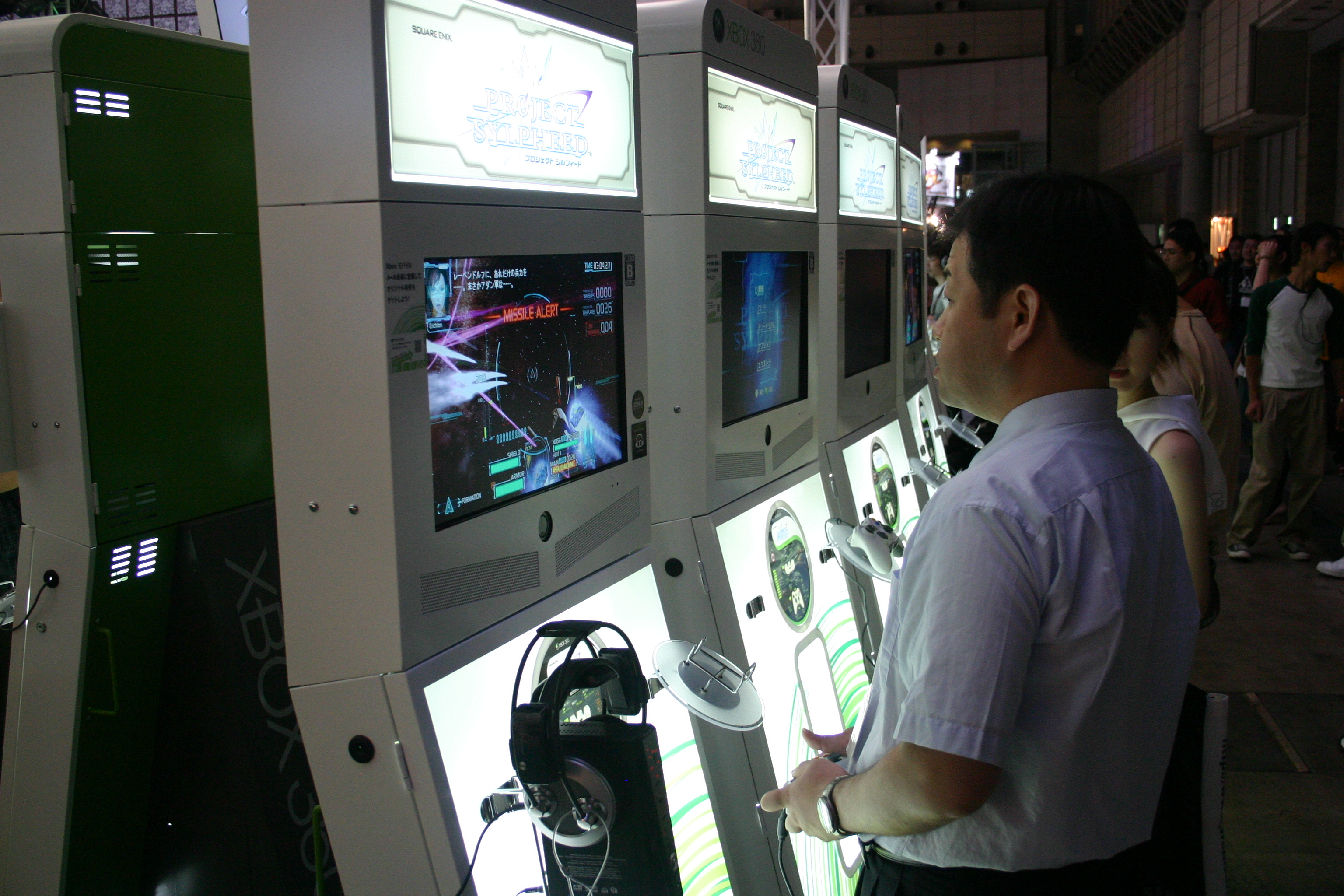 Game show visitors playing at a line of Xbox 360 machines; the game is Project Sylpheed, published by Square Enix and Microsoft, but is distorted enough and of a minor portion of the image that it should qualify under de minimis.